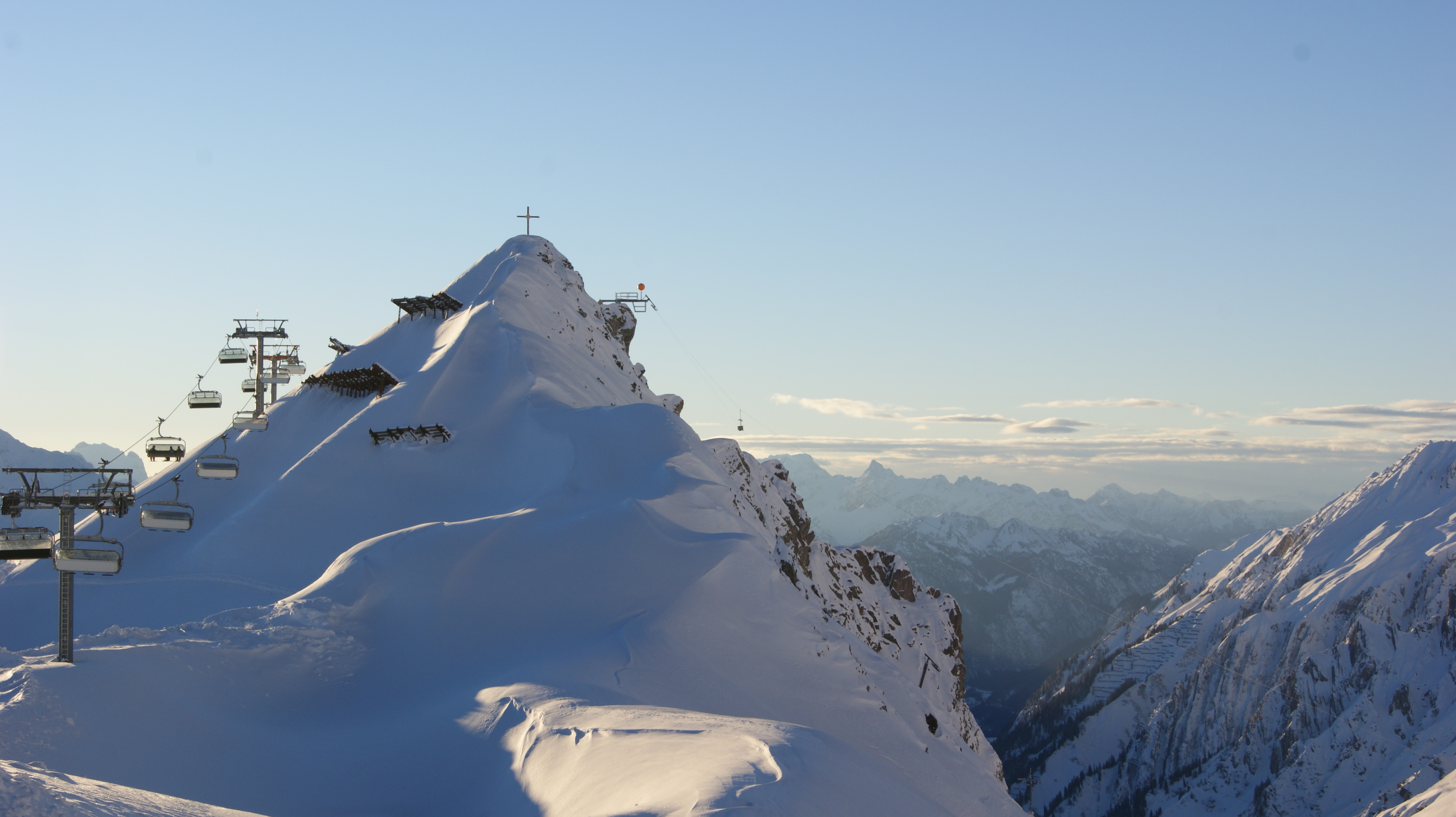 Avalanche blasting ropeway Valfagehr in Rauz, Kloesterle, Voralberg, Austria. On the left the detachable high-speed six-person chairlift Valfagher, in the middle the "Pannenkopf" with summit cross and on the right the avalanche blasting ropeway Valfagher.